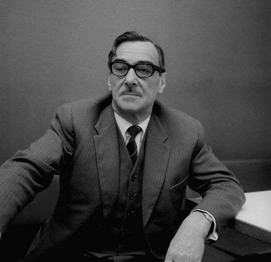 Photograph of the Finnish actor/director Ville Salminen (1908–1992).